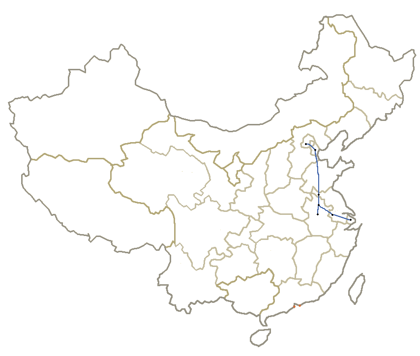 Map showing Beijing-Shanghai Line (High-speed rail)